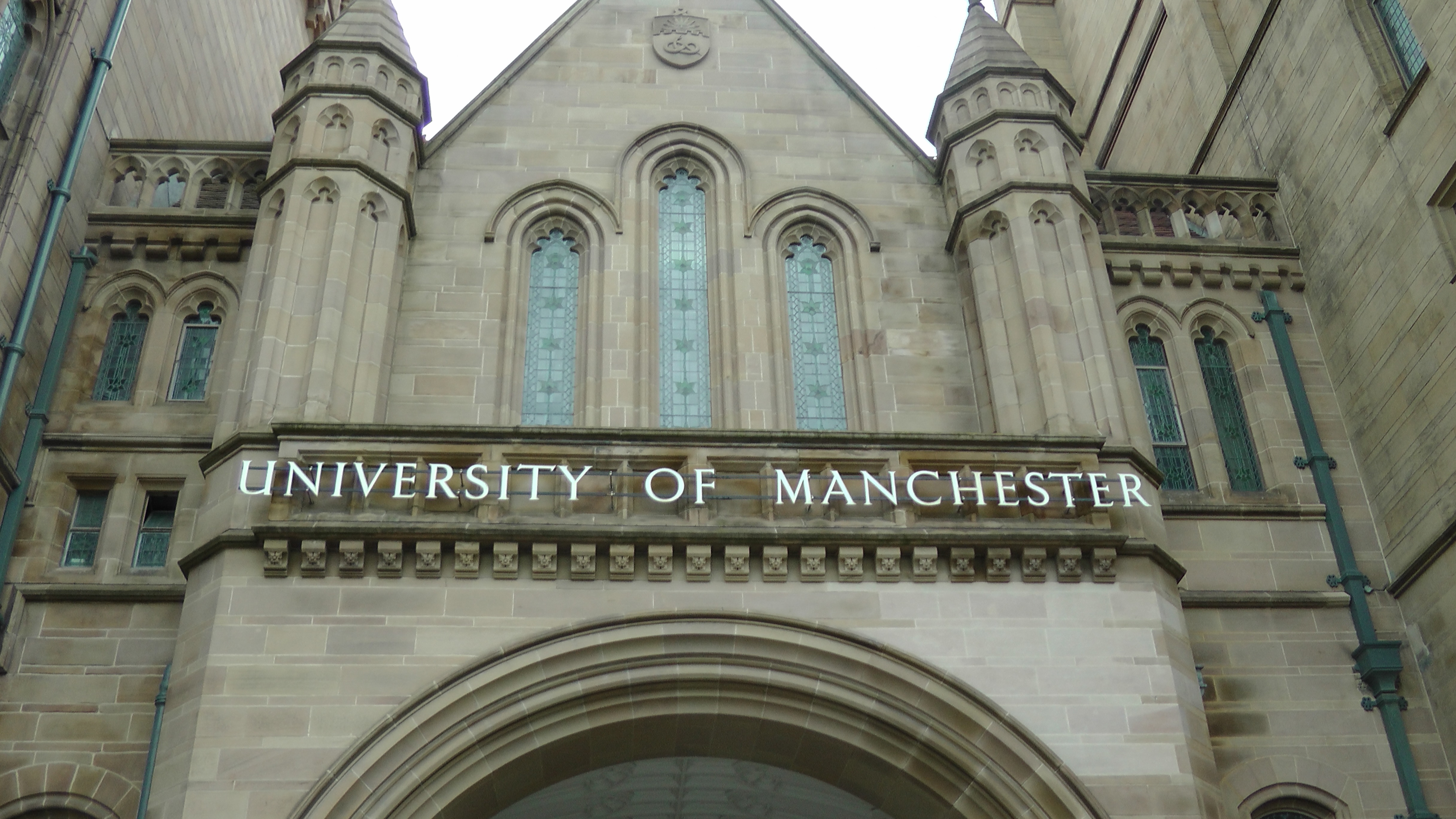 July 2015.